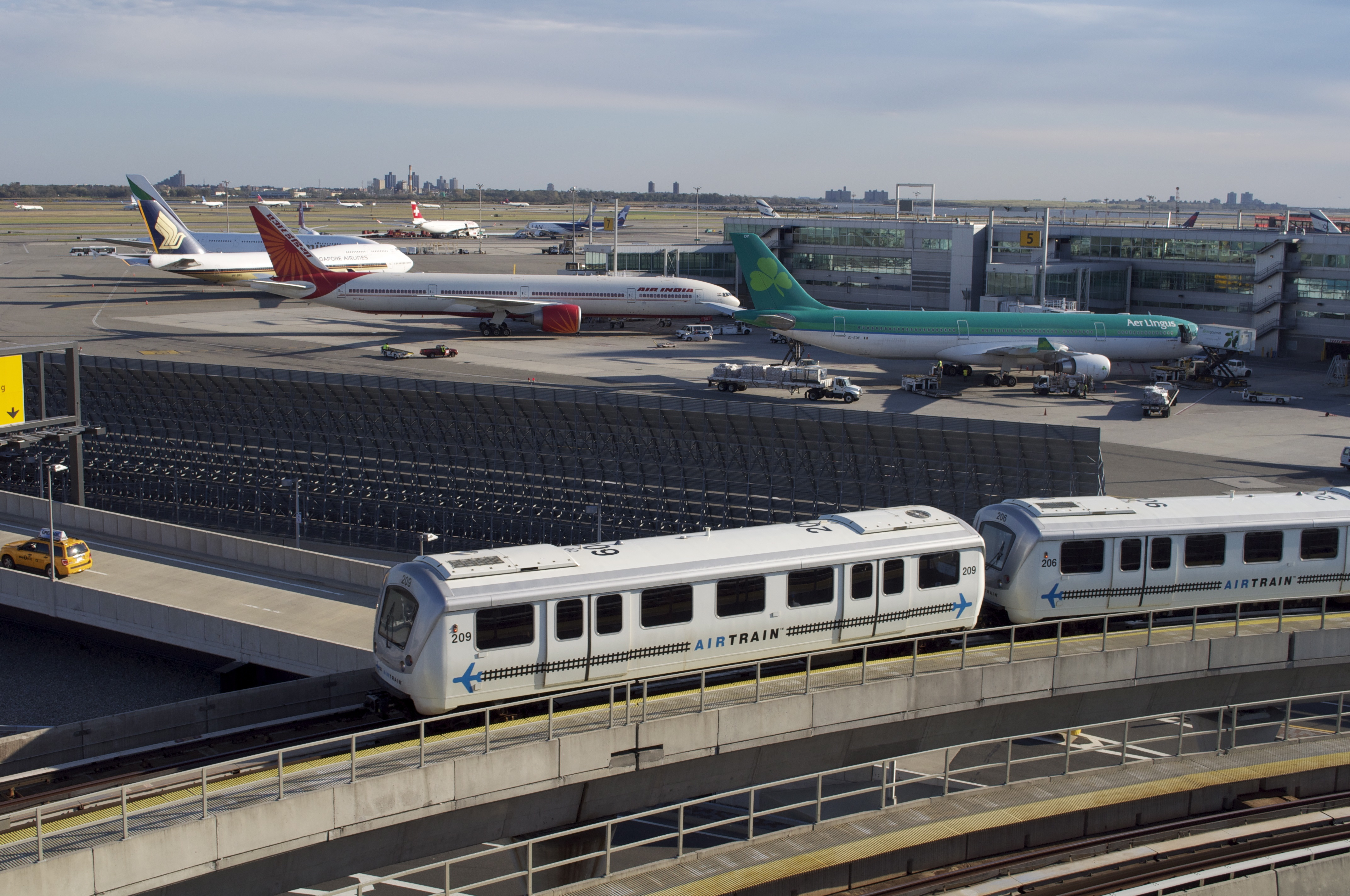 TWA Flight Center Open House NYC - 10/16/2011 - 61